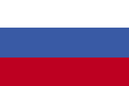 Flag with three horizontal stripes: white-blue-red